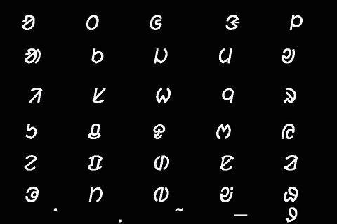 Ol Chiki script (alphabet)